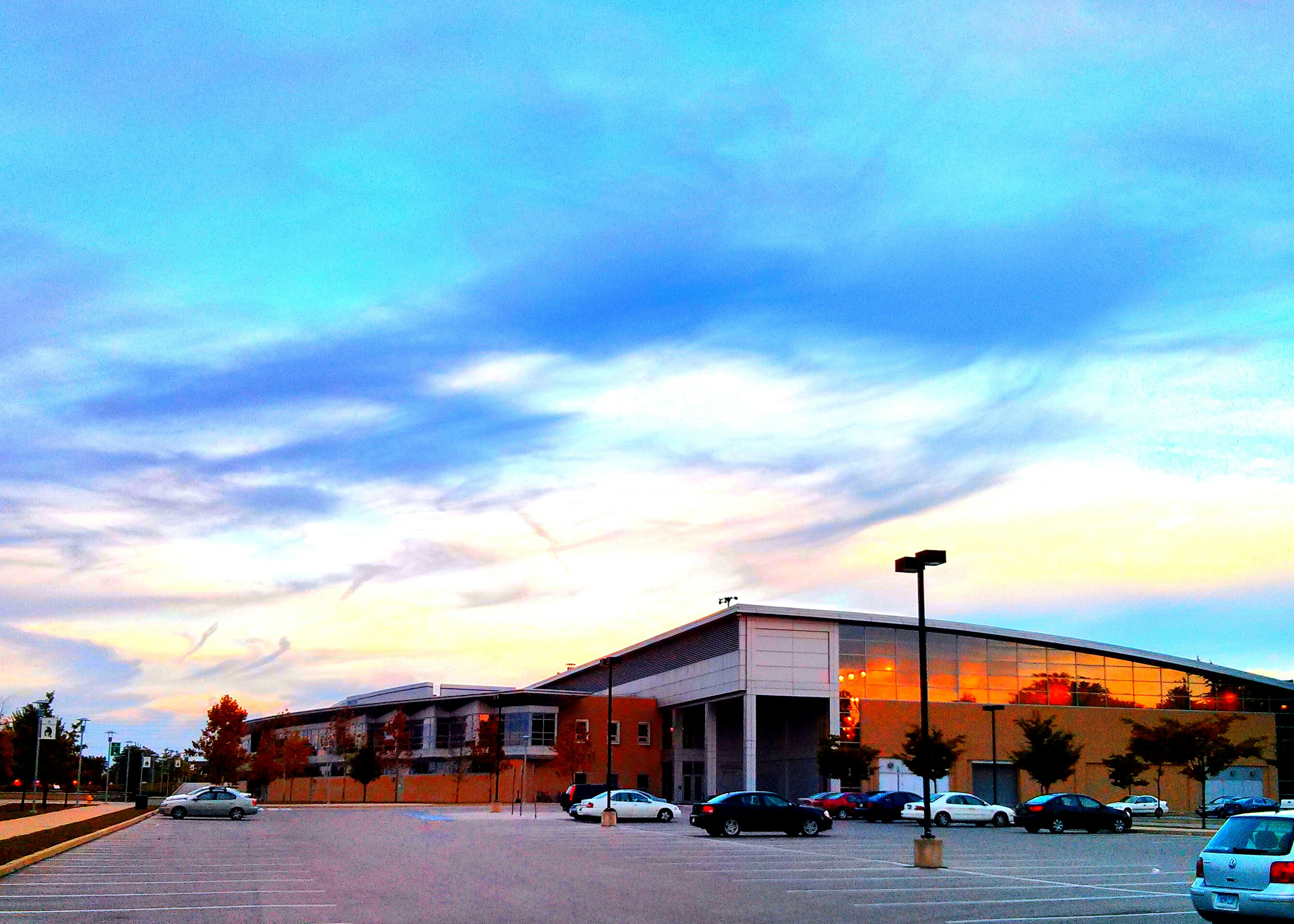 Grumbacher Sport and Fitness Center at York College of Pa